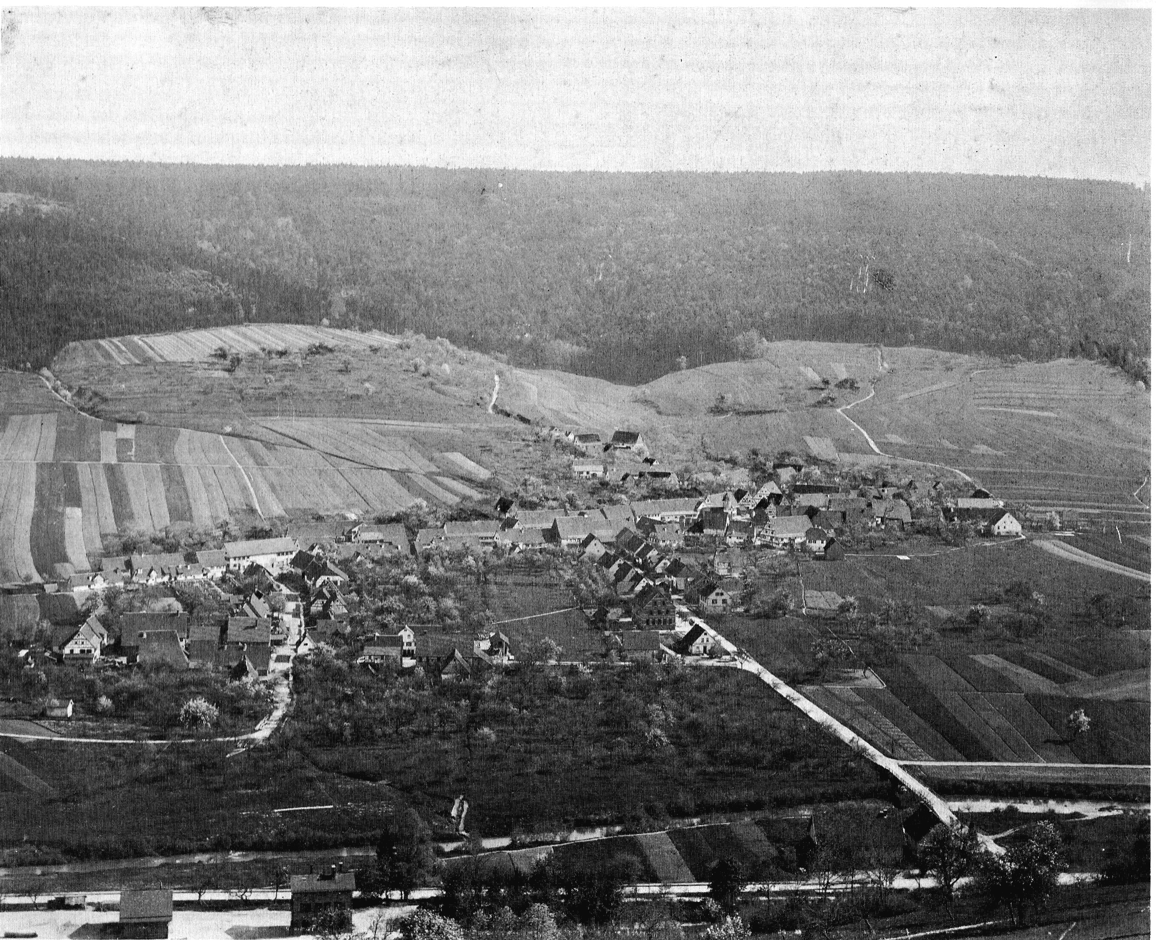 Waldhausen (Lorch (Württemberg)), view from Elisabethenberg, 1899